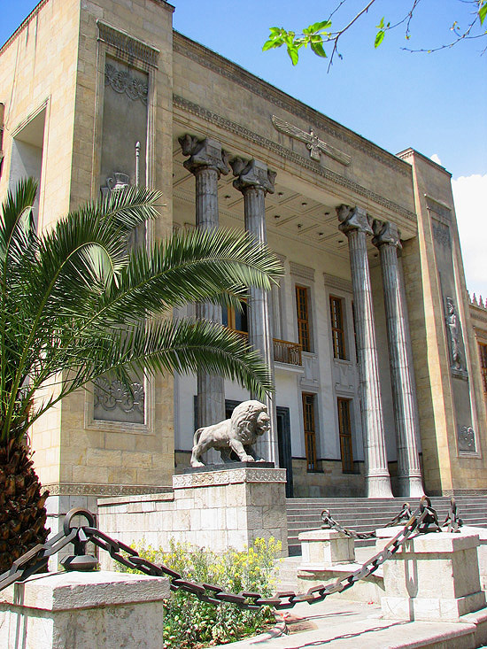 A view of the building of "Sandogh Pas-andaz Melli" (Bank Melli Saving Fund) belong to Bank Melli Iran (National Bank of Iran), located at Ferdowsi Ave., Tehran, Iran The building was constructed during the reign of Reza Shah Pahlavi.